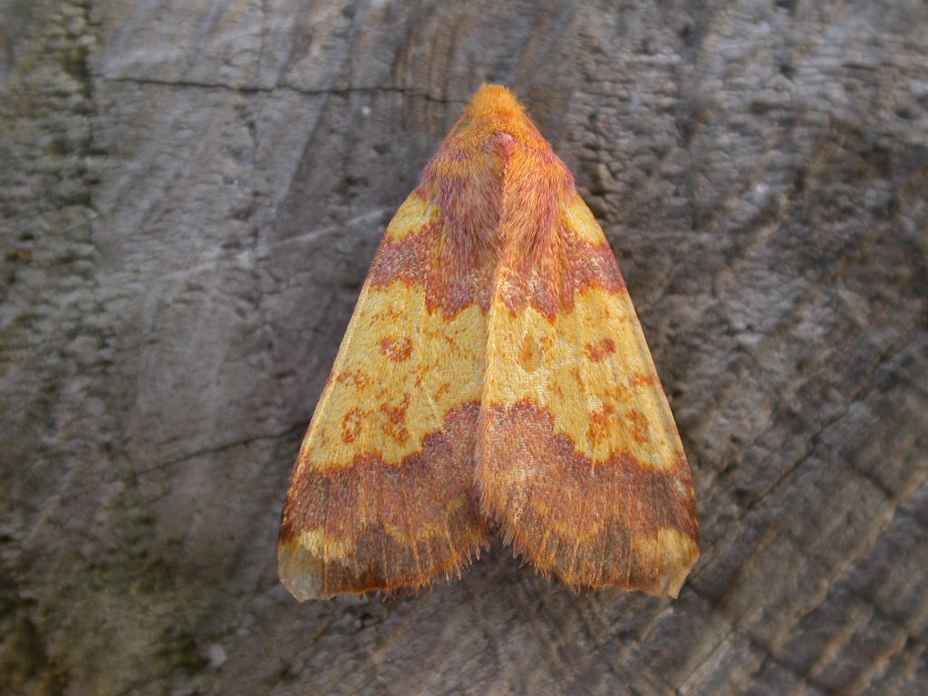 Tiliacea aurago (syn. Xanthia aurago), to MV light, Hellerup, Denmark, 5 October 2005